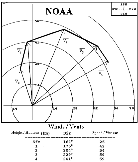 Hodographe showing how radio-sounding winds are plotted by meteorologists (typical Ekman layer here). Winds speeds could be in knots, miles per hours, km/h or any other units.